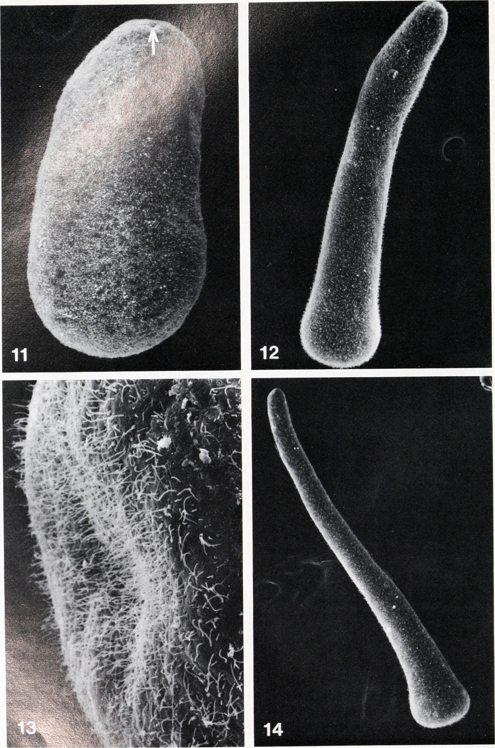 Title: The Biological bulletin Year: [1] (s) Authors: Marine Biological Laboratory (Woods Hole, Mass. ); Marine Biological Laboratory (Woods Hole, Mass. ). Annual report 1907/08-1952; Lillie, Frank Rattray, 1870-1947; Moore, Carl Richard, 1892-; Redfield, Alfred Clarence, 1890-1983 Subjects: Biology; Zoology; Biology; Marine Biology Publisher: Woods Hole, Mass. : Marine Biological Laboratory Text Appearing Before Image: ' Text Appearing After Image: FIGURE 1 Ten-hour planula. The animal has elongated and has a distinct anterior end and posterior end. The anterior end is directed down in this micrograph. Microvilli are scattered over the surfaces of all ectodermal cells. Cilia are numerous. The blastopore (arrow) is located at the posterior tip of the planula. X280. FIGURE 12. Thirty-six-hour planula. The planula is long and narrow. Cilia are abundant, long, and scattered over the entire surface of the animal. The anterior and posterior regions are much narrower than seen in the 10-hour planula (Fig. 11). The anterior end is down. X165. FIGURE 13. Thirty-six-hour planula. An indentation is present in the middle of the anterior end. This pit is not the same indentation formed by the blastopore. Long cilia project out from the pit. XI100. FIGURE 14. Forty-eight-hour planula. Anterior end is directed down. X145.